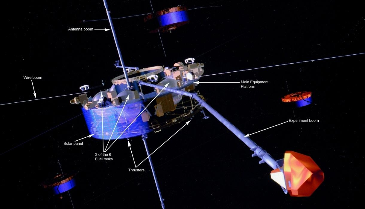 Cutaway diagram of one of the Cluster spacecraft, showing its main structural features.